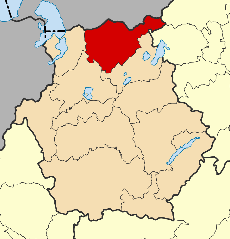 Locator map for Florina municipality in Greek region West Macedonia (2011)